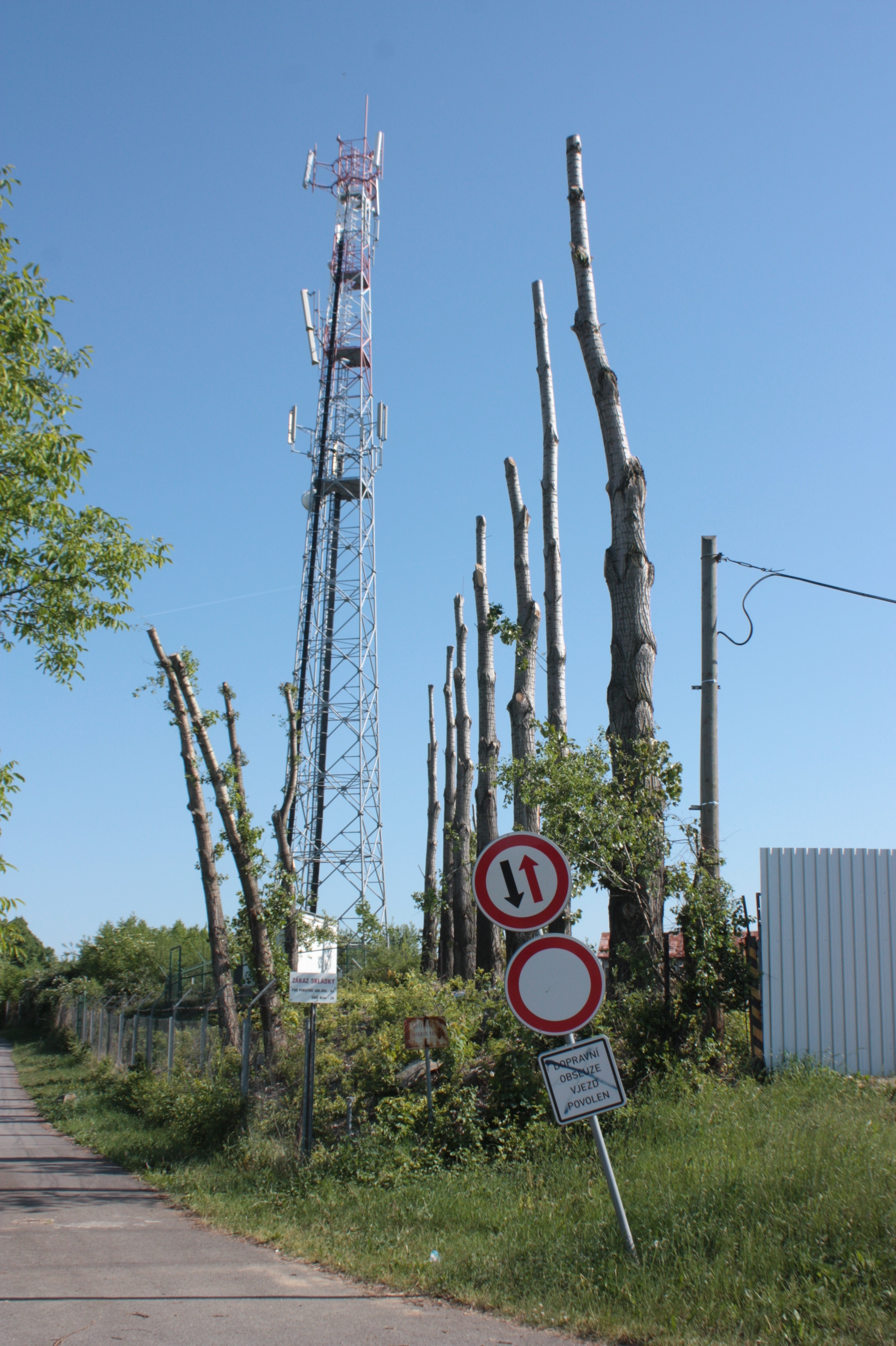 Populus nigra after pruning, along alley, Dolní Heršpice, Brno.